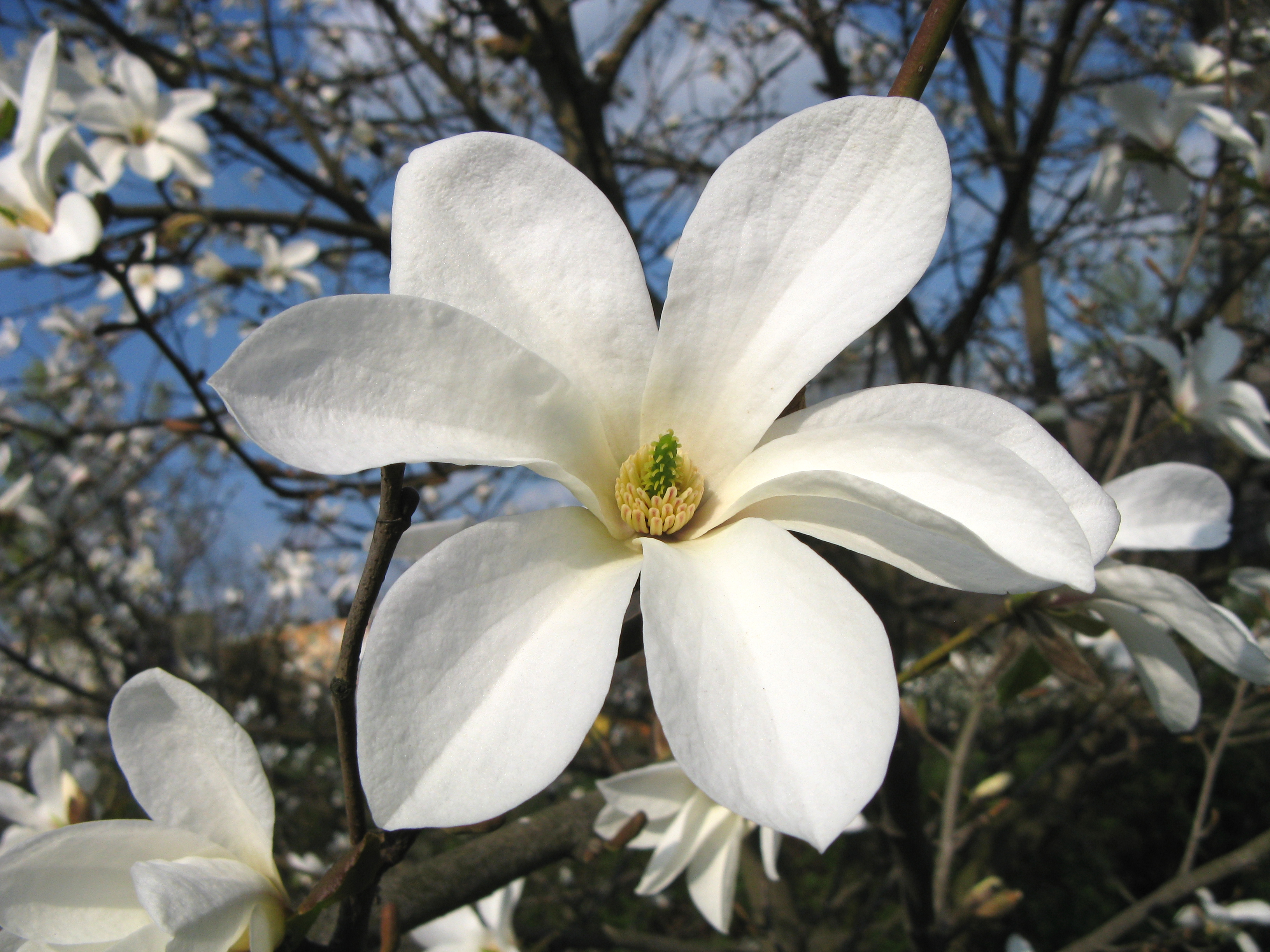 Magnolia flower of a species in section Yulania. This picture most likely represents Magnolia salicifolia because of the tepal number (7 visible here), the spathulate shape of the tepals (which rules out Magnolia denudata) and the white to cream coloured stamens but there is also a slight chance that this plant is in fact Magnolia kobus with unusual creamy (in stead of rose-purple at the base) stamens.